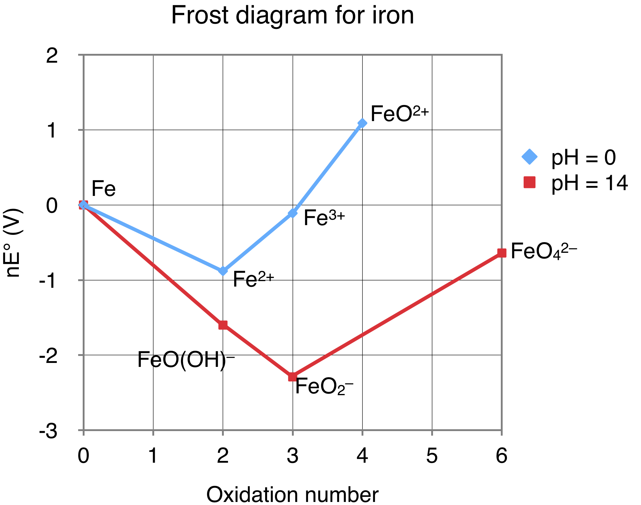 Frost diagram for iron. Data from Shriver & Atkins' Inorganic Chemistry, 5th Edition, 2010